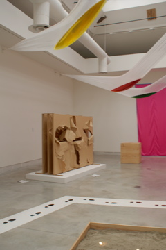 Gutai, Biennale, Venice, 2009